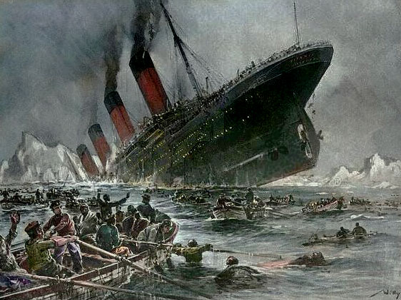 Engraving by Willy Stöwer: Der Untergang der Titanic (colour added later)